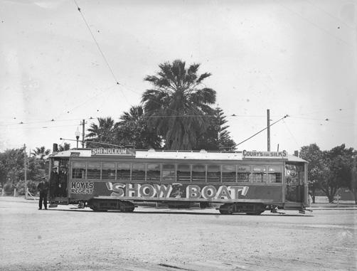 Perth tram with advertisement for the American romantic film Show Boat (1929), showing at the Hoyts Regent.